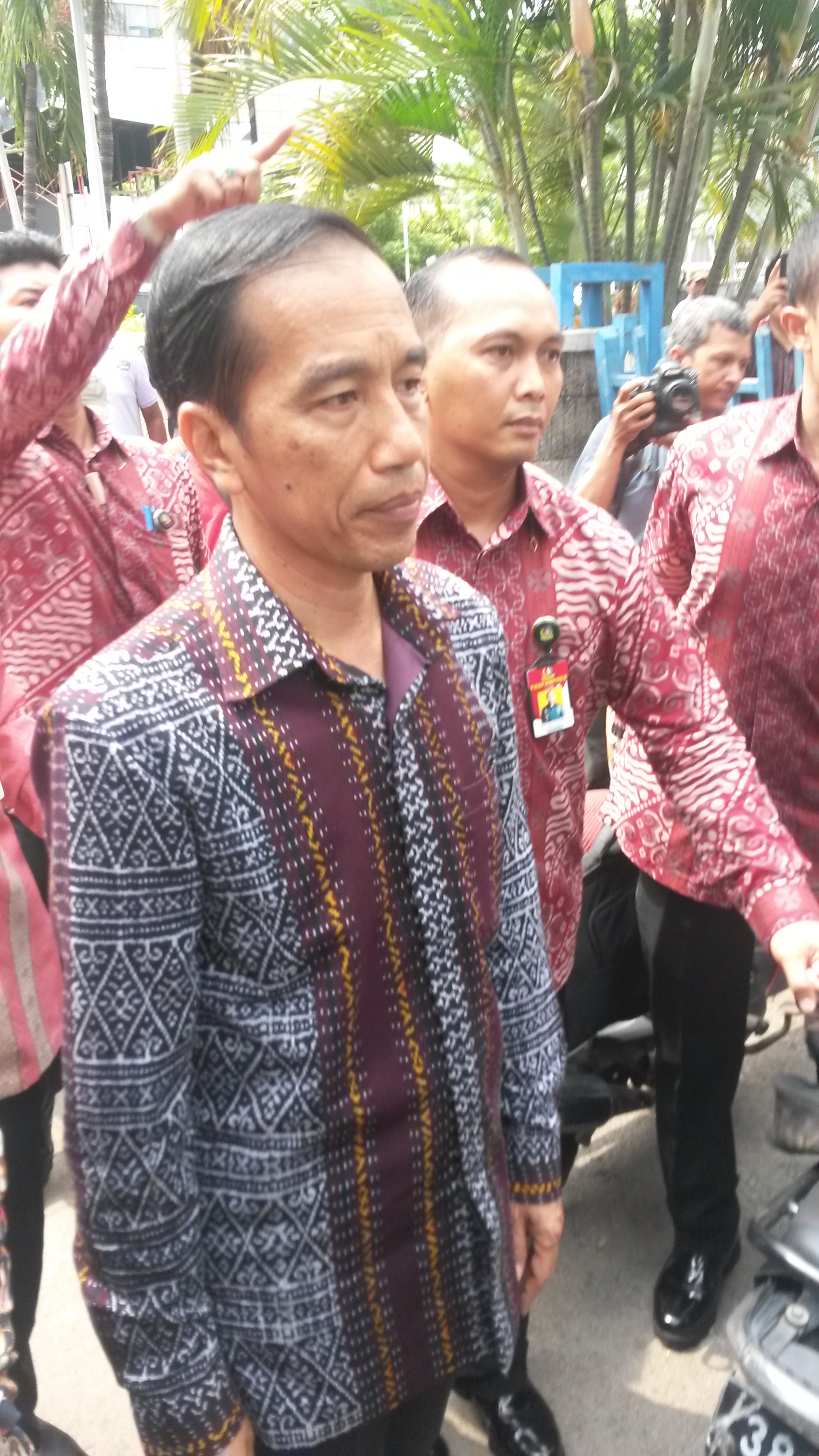 indonesian president joko widodo